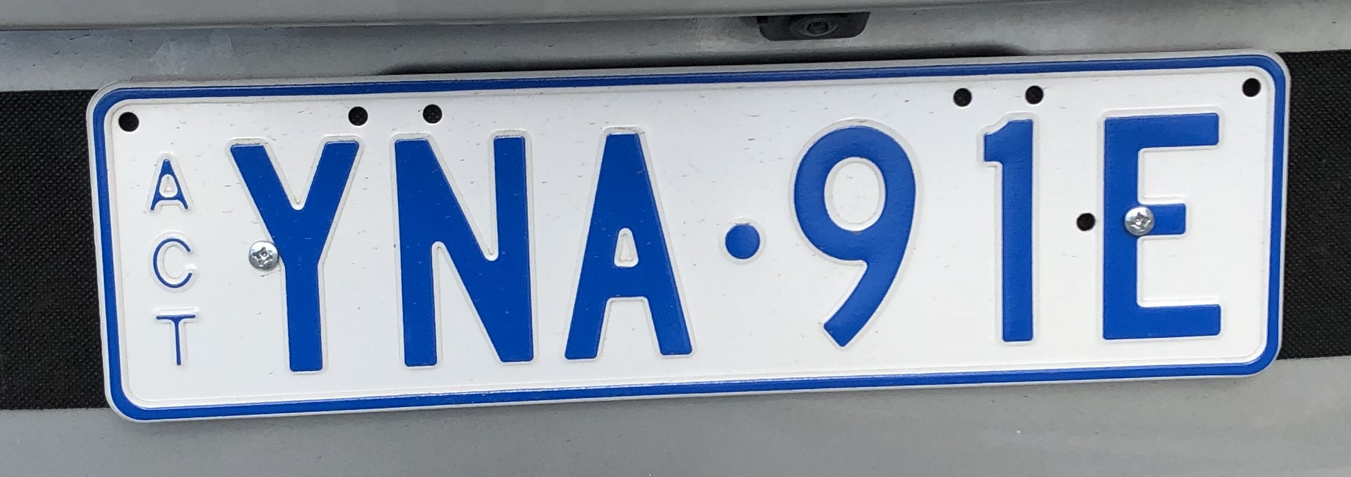 New release June 2018